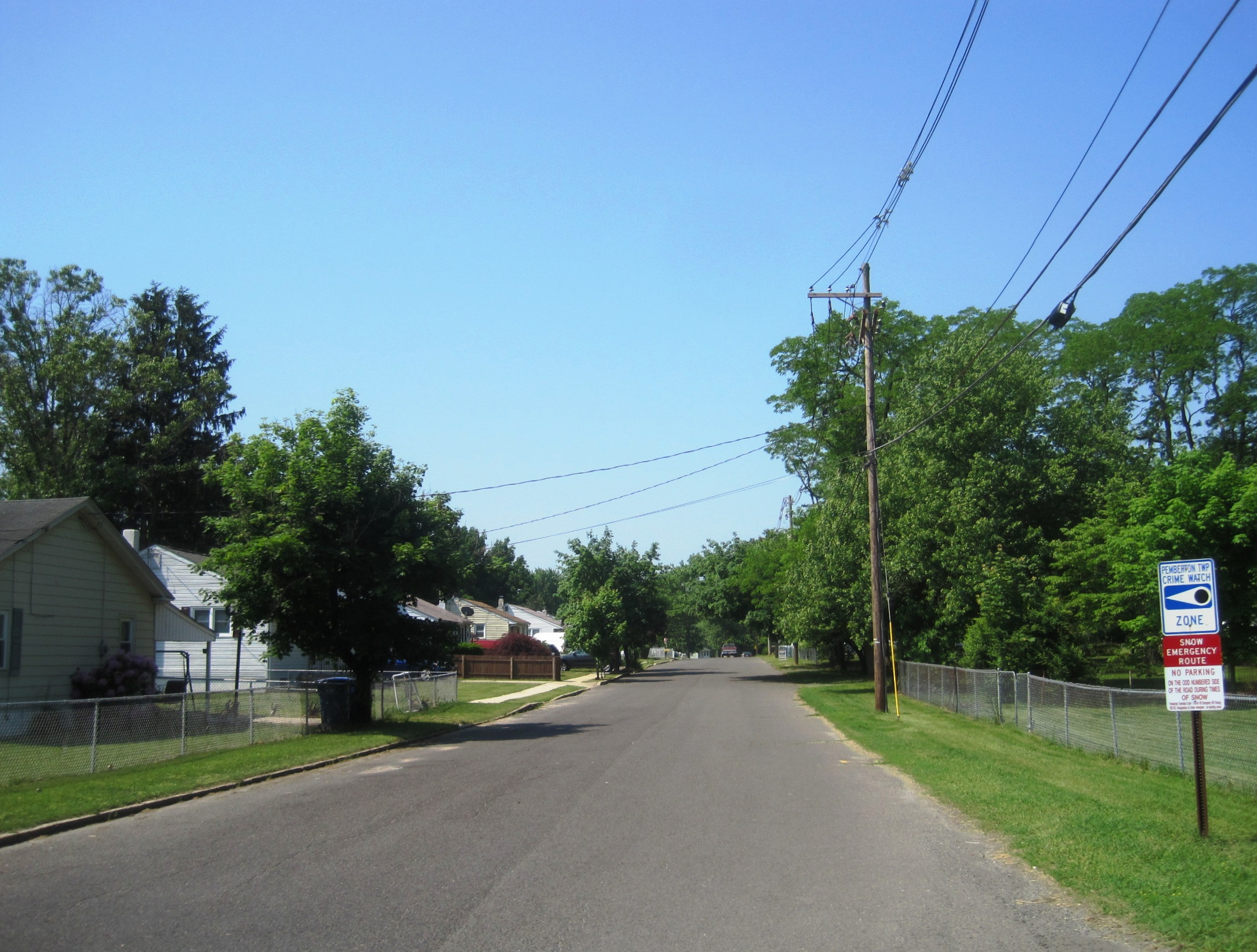 Photograph showing Pemberton Heights, New Jersey, a census-designated place within Pemberton Township. Photo taken looking southwest along Rottau Avenue from Magnolia Road (County Route 644).